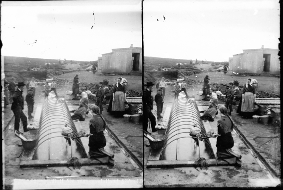 Konur við þvotta í Þvottalaugunum í Laugardal, 1902 – 1910. Reykjavík, Iceland, Women washing laundry in Laugardalur, 1902 – 1910. Ljósmyndari / Photographer: Magnús Ólafsson Format: Glerplata / Glass negatives. 10x15 cm. Stereoscope Höfundarréttur / Rights Info: Enginn þekktur höfundarréttur /No known restrictions on publication. Geymsla / Repository: Ljósmyndasafn Reykjavíkur / Reykjavík Museum of Photography, Tryggvagata 15, 6. Hæð / 6th floor Númer myndar / Call Number: MAÓ 106 Myndavefur Ljósmyndasafnsins / Reykjavík Museum of Photography´s photoweb: ljosmyndasafn.reykjavik.is/fotoweb/Grid.fwx